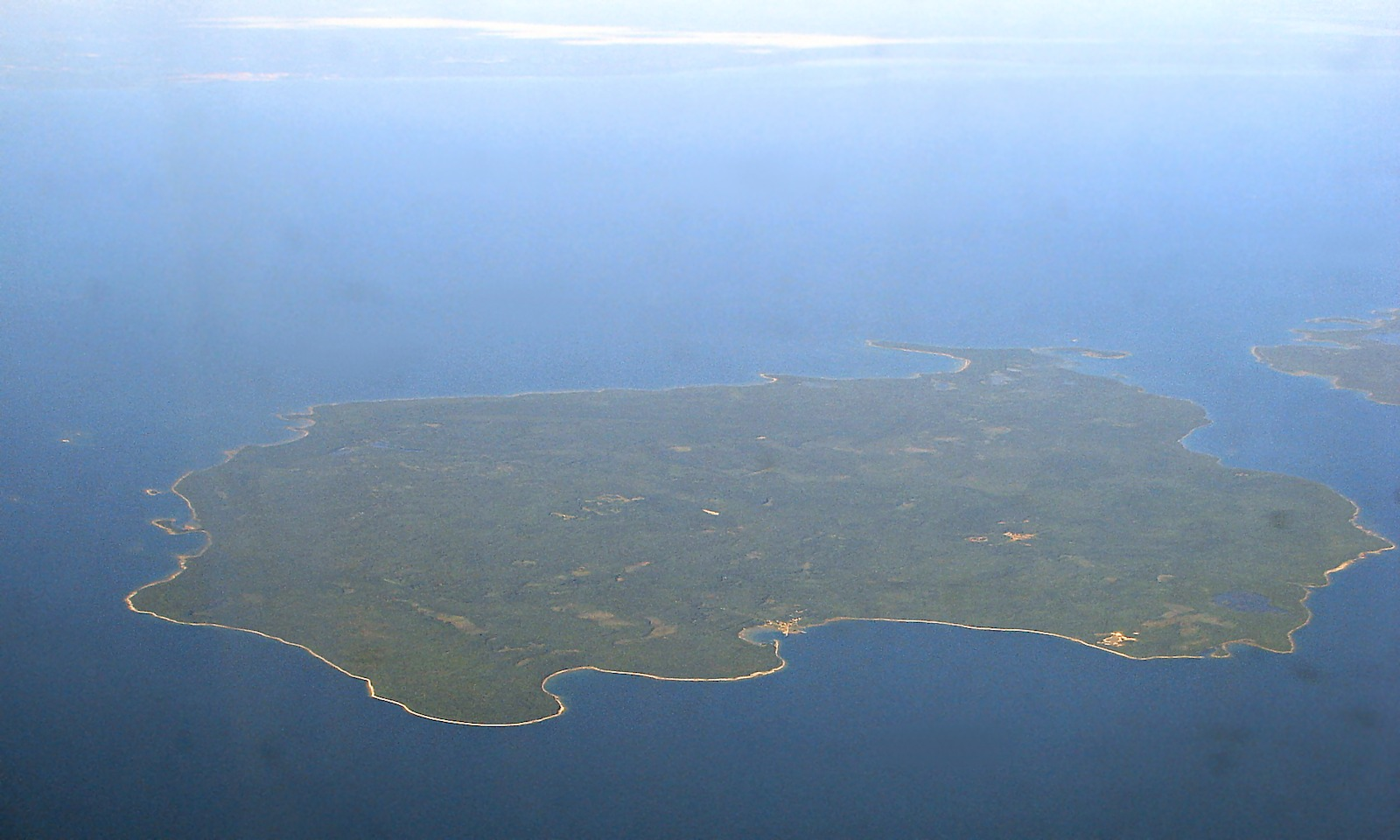 Aerial view of Cockburn Island (looking from north to south), Ontario, Canada